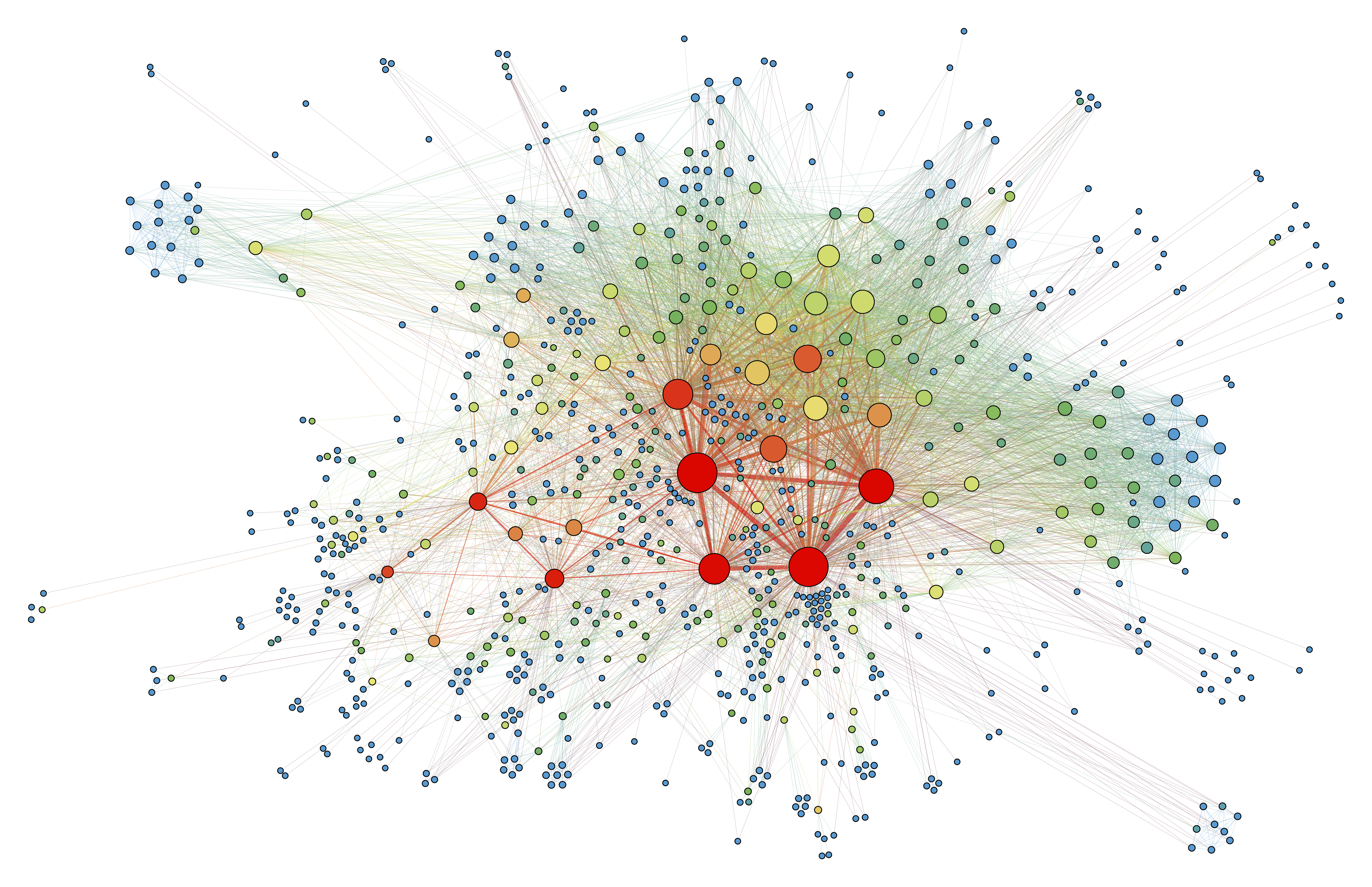 Social network visualization. Graph containing 800 vertices and 10.000 edges. Color = Betweenness centrality. Published in: Grandjean Martin (2015). "Introduction à la visualisation de données, l'analyse de réseau en histoire" Geschichte und Informatik, 18/19, 2015, 109-128.